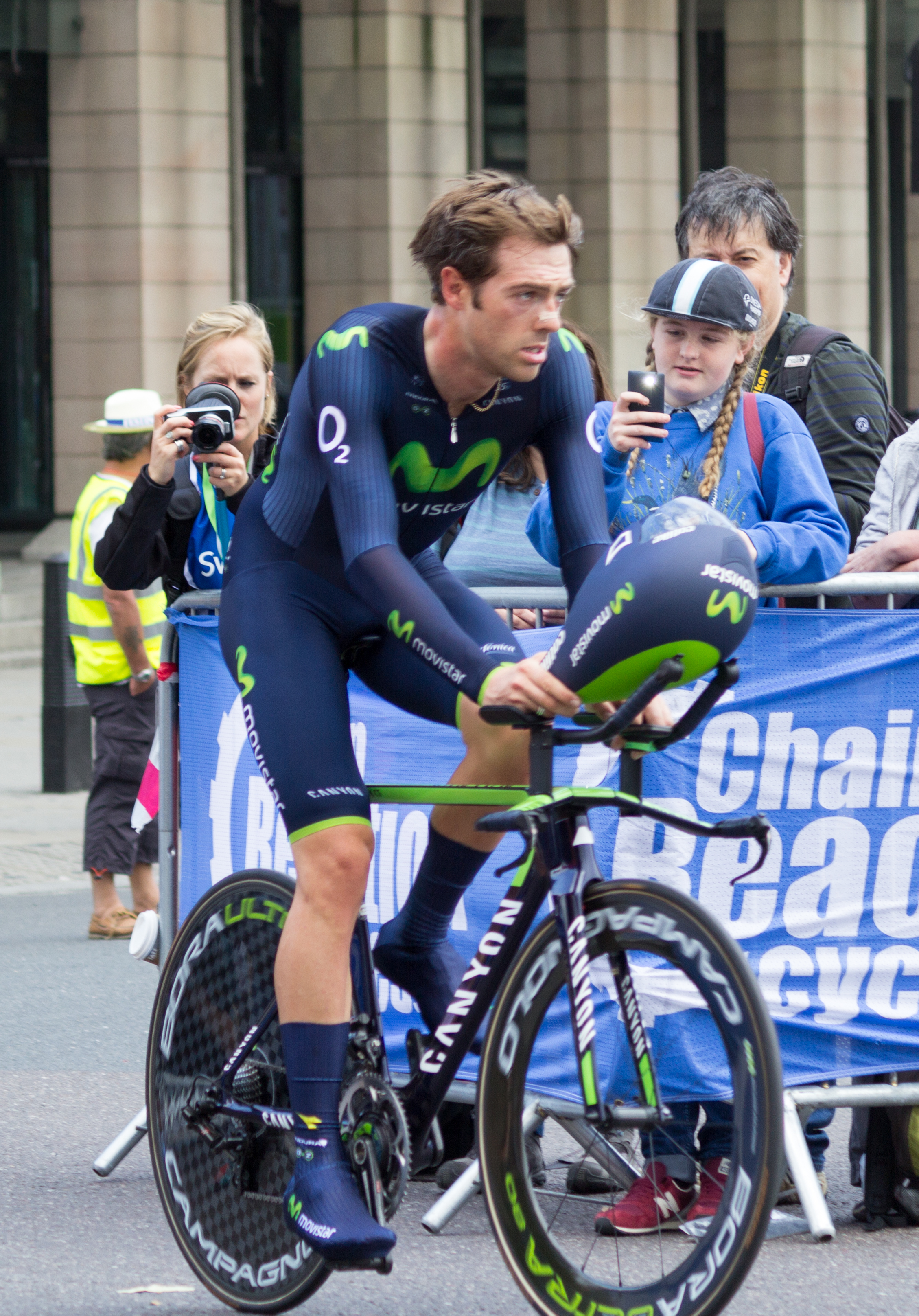 Tour of Britain 2014 stage 8a - London time trial